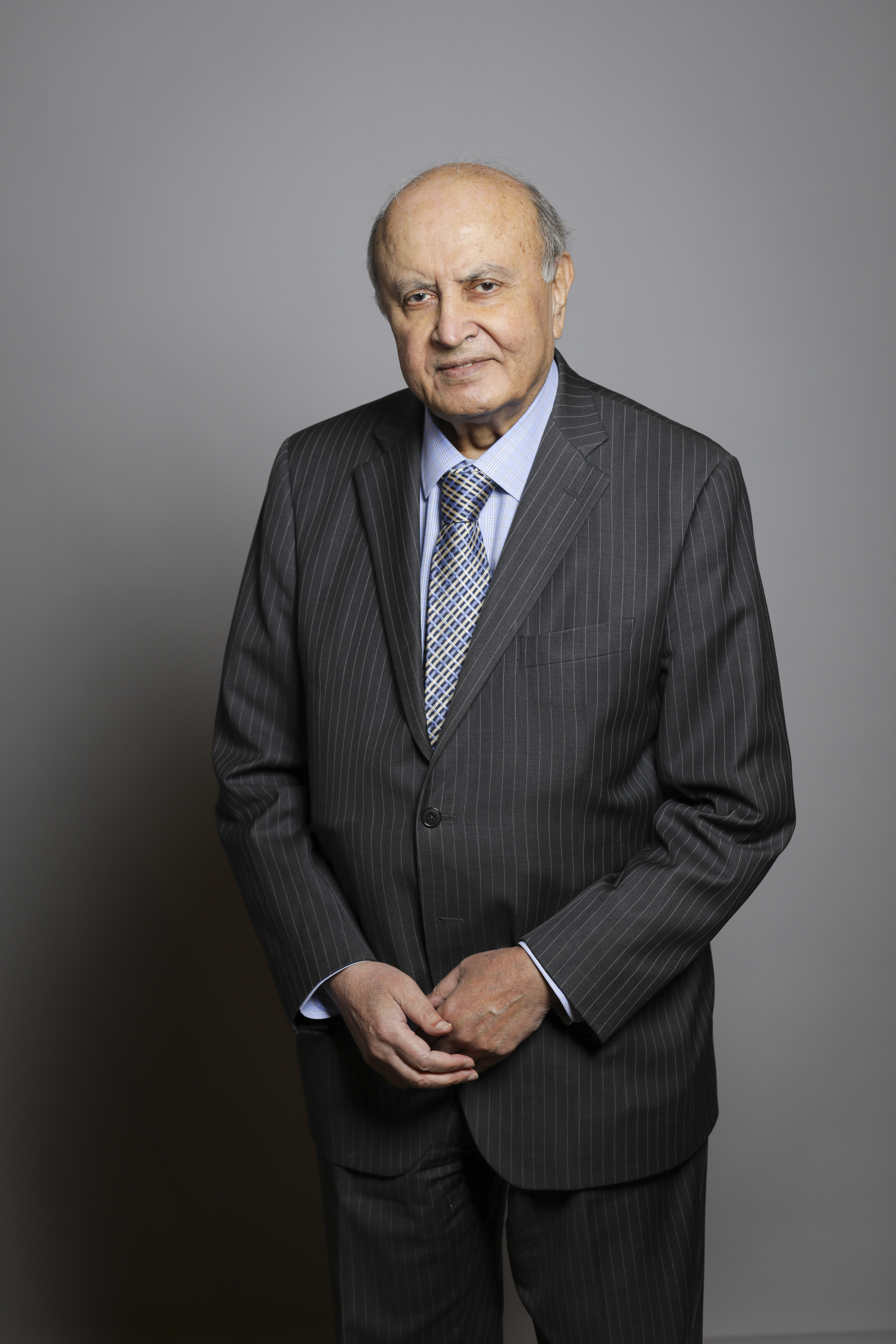 Official portrait of Lord Hameed Full sized portrait of Lord Hameed